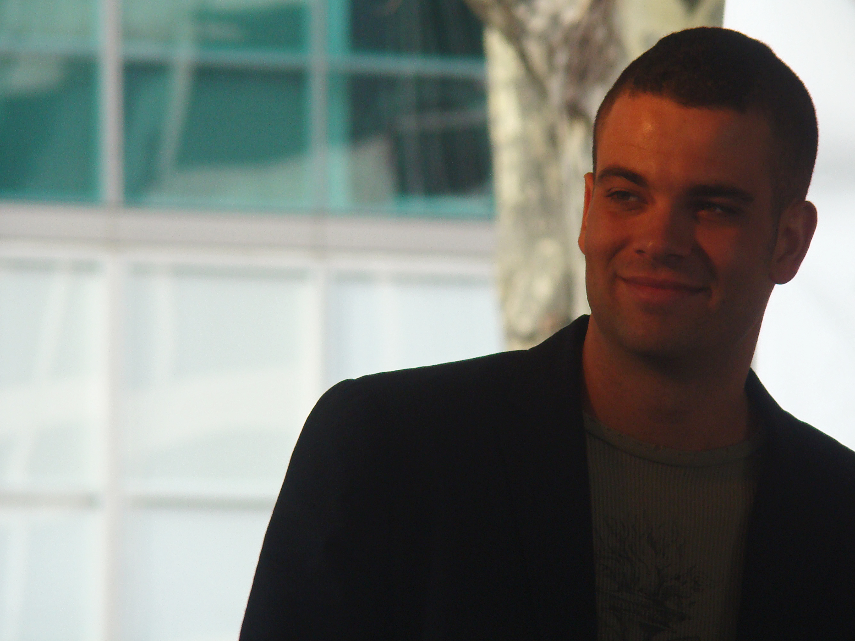 Glee cast-member Mark Salling (Puck) at a charity appearance in Bryant Park in conjunction with the Marine Corps Toys for Tots program.